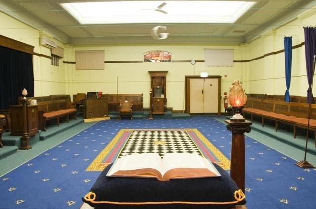 Main Lodge Room looking from Masters seat, 141 Gipps St, Collingwood United Masonic Centre